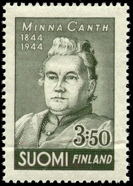 Postage stamp depicting the Finnish writer Minna Canth